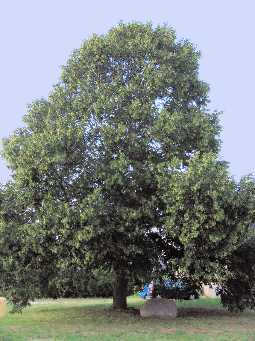 Wossidlo linden tree in Koerkwitz, Germany.